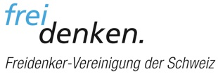 German logo of the Freethinkers Association of Switzerland.